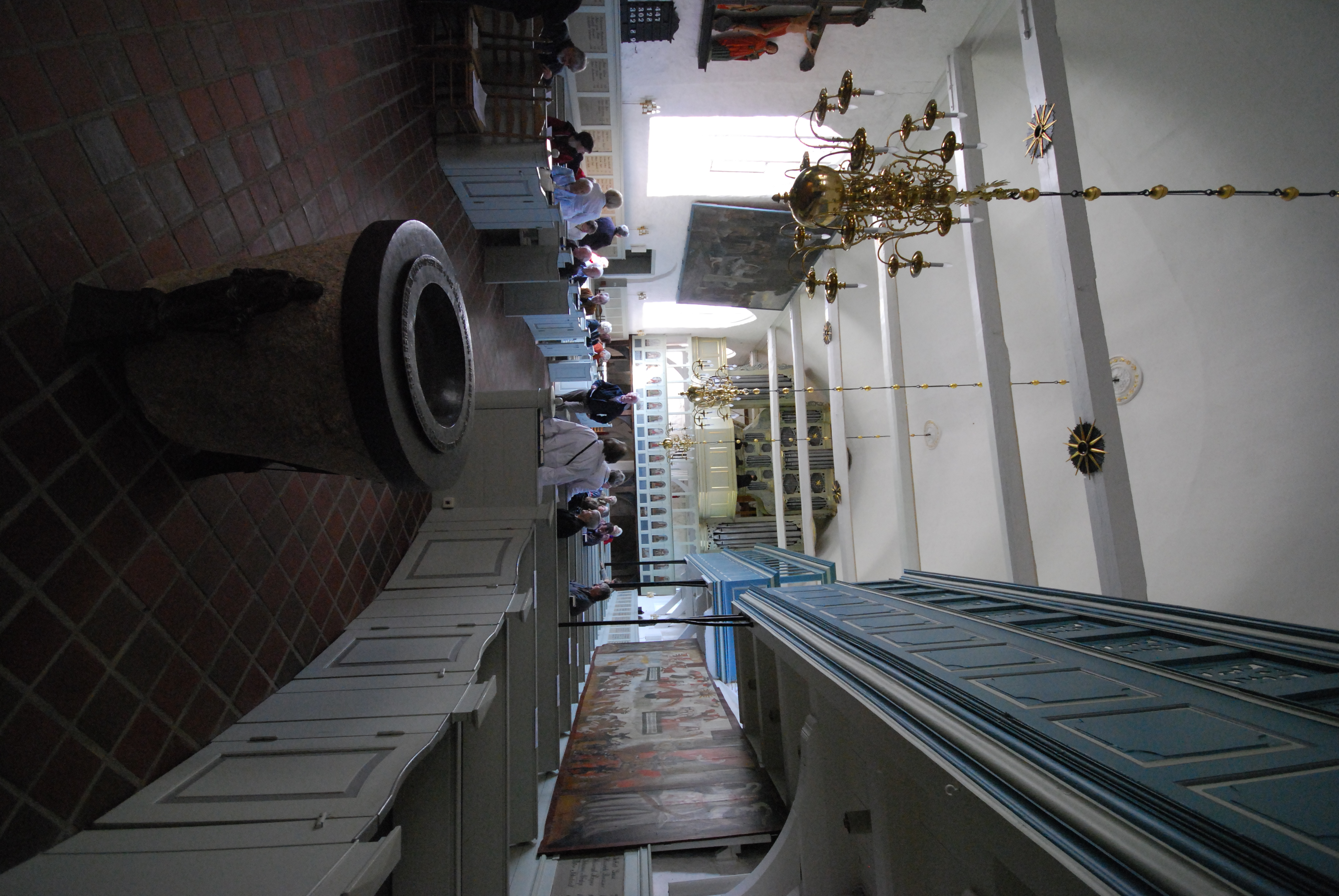 Schnitger organ Mittelnkirchen